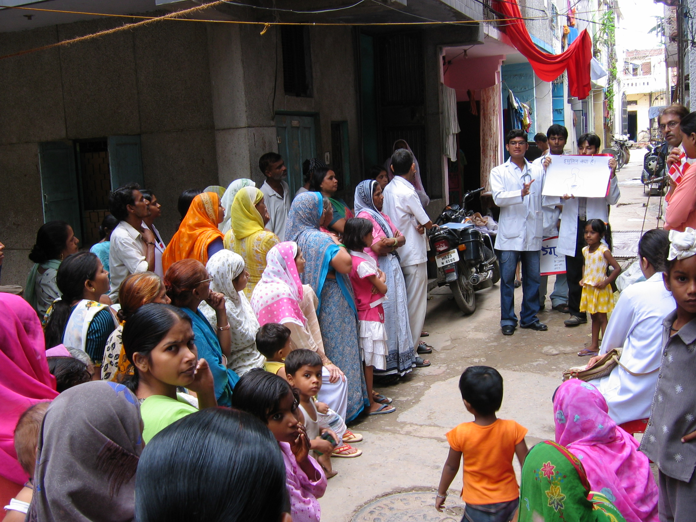 Community education (by AIIMS students) about mosquito-borne illnesses in a Delhi slum